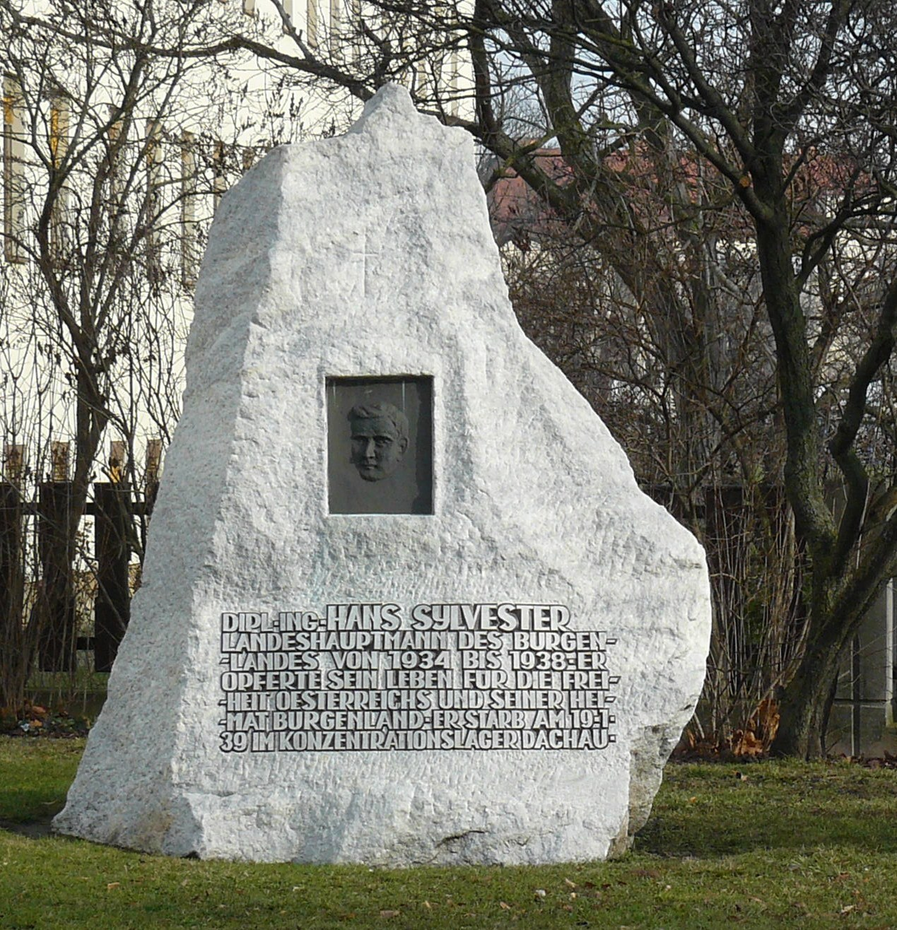 Hans Sylvester Monument in Eisenstadt.